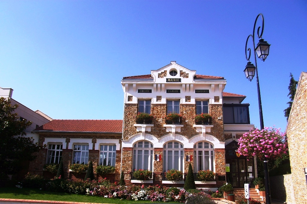 Villejust TownHall